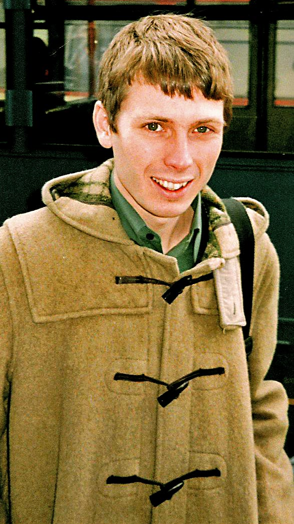 Alex Kapranos from Franz Ferdinand wearing a duffle coat. Taken by Flickr user saint bob 2005-12-04.[1] Edited by Daniel Case.